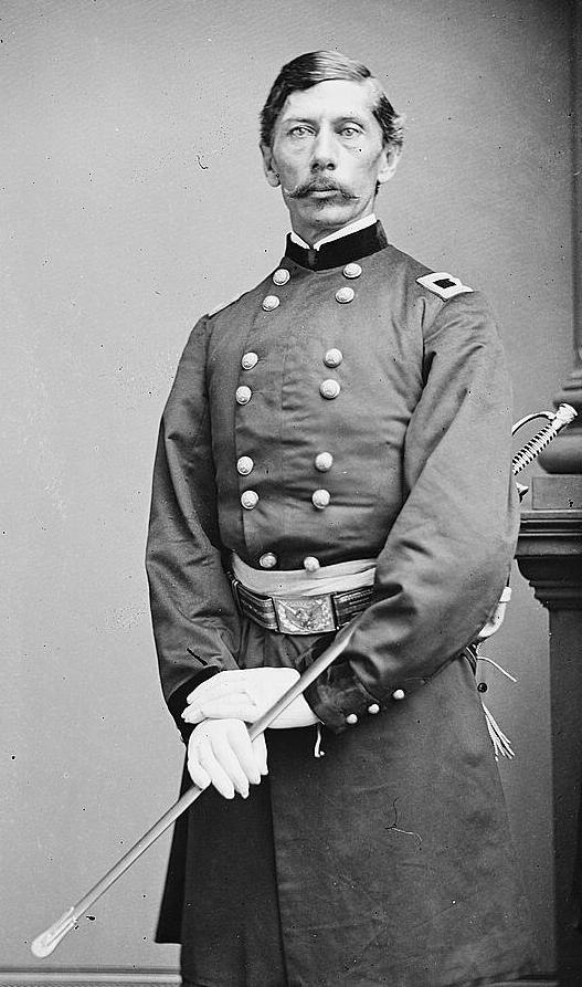 Portrait of Brig. Gen. Henry M. Judah, officer of the Federal Army.